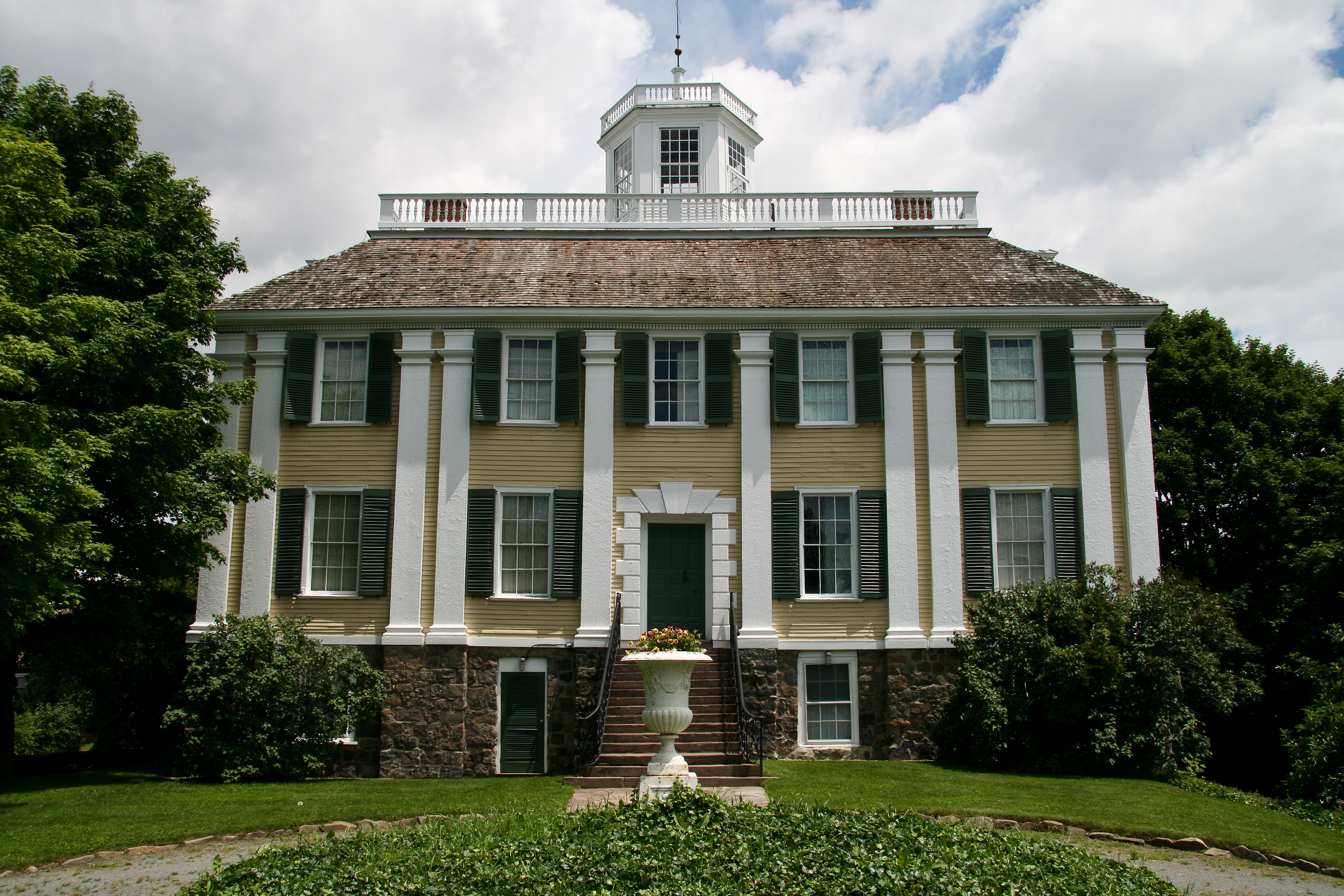 Shirley-Eustis House, Roxbury, originally the mansion for the Royal Governor of Massachusetts Bay Colony. Shot with Canon XTi | EF-S17-85mm f/4-5.6 IS USM @ 22 mm 1/200 sec at f/10 | ISO100 | no flash